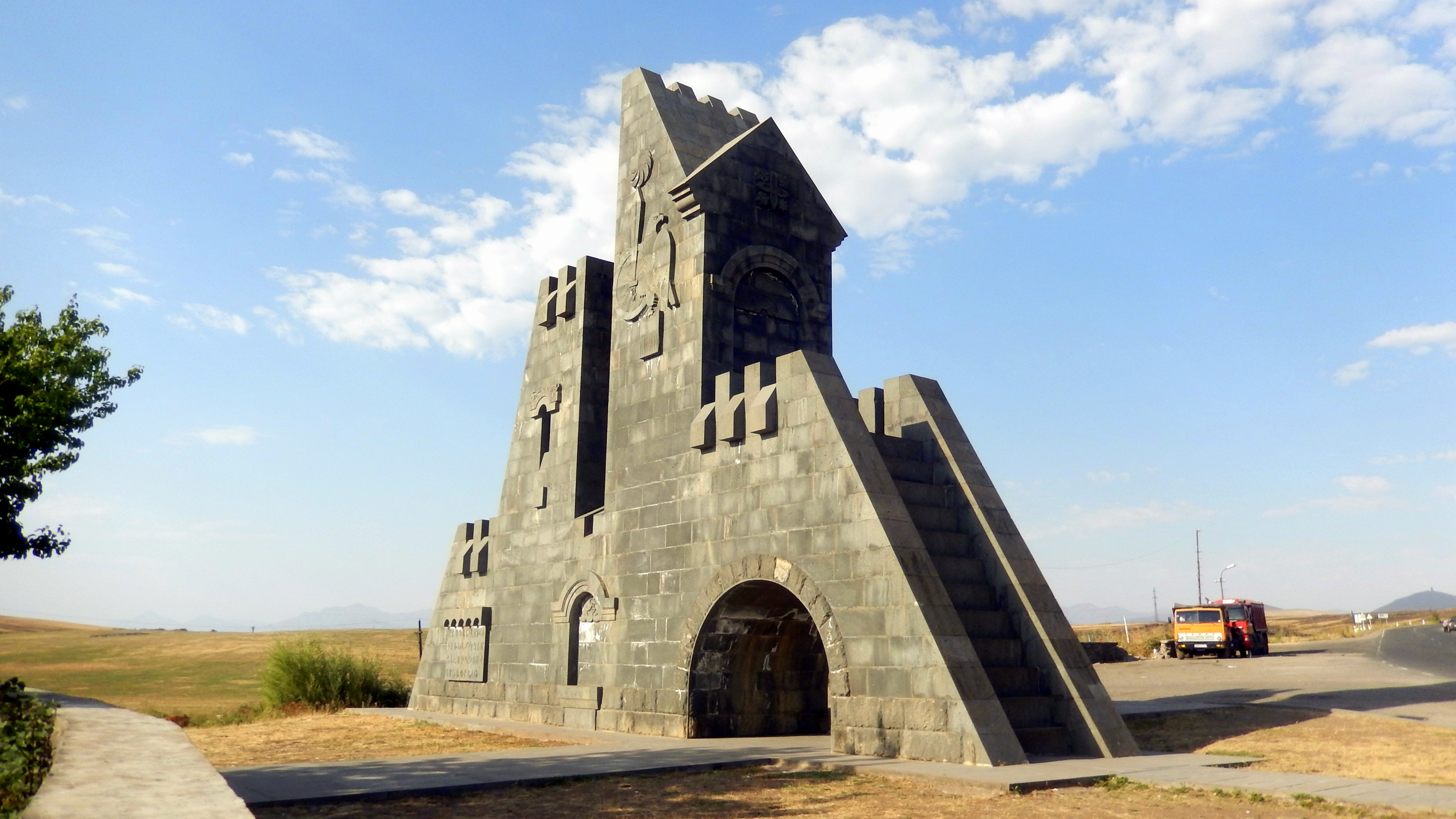 Goris entrance monument, Syunik Province